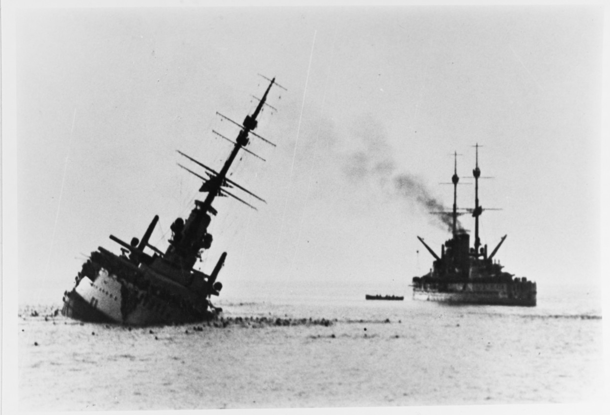 Szent István sinking after torpedoed by an Italian torpedo boat, 11 June 1918. Her sister ship Tegetthoff can be seen floating by at right.